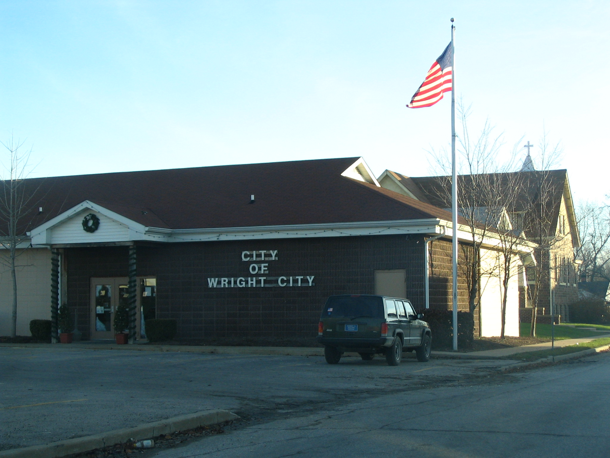 Photo of town hall in Wright City, Missouri. Backlit so not very good.